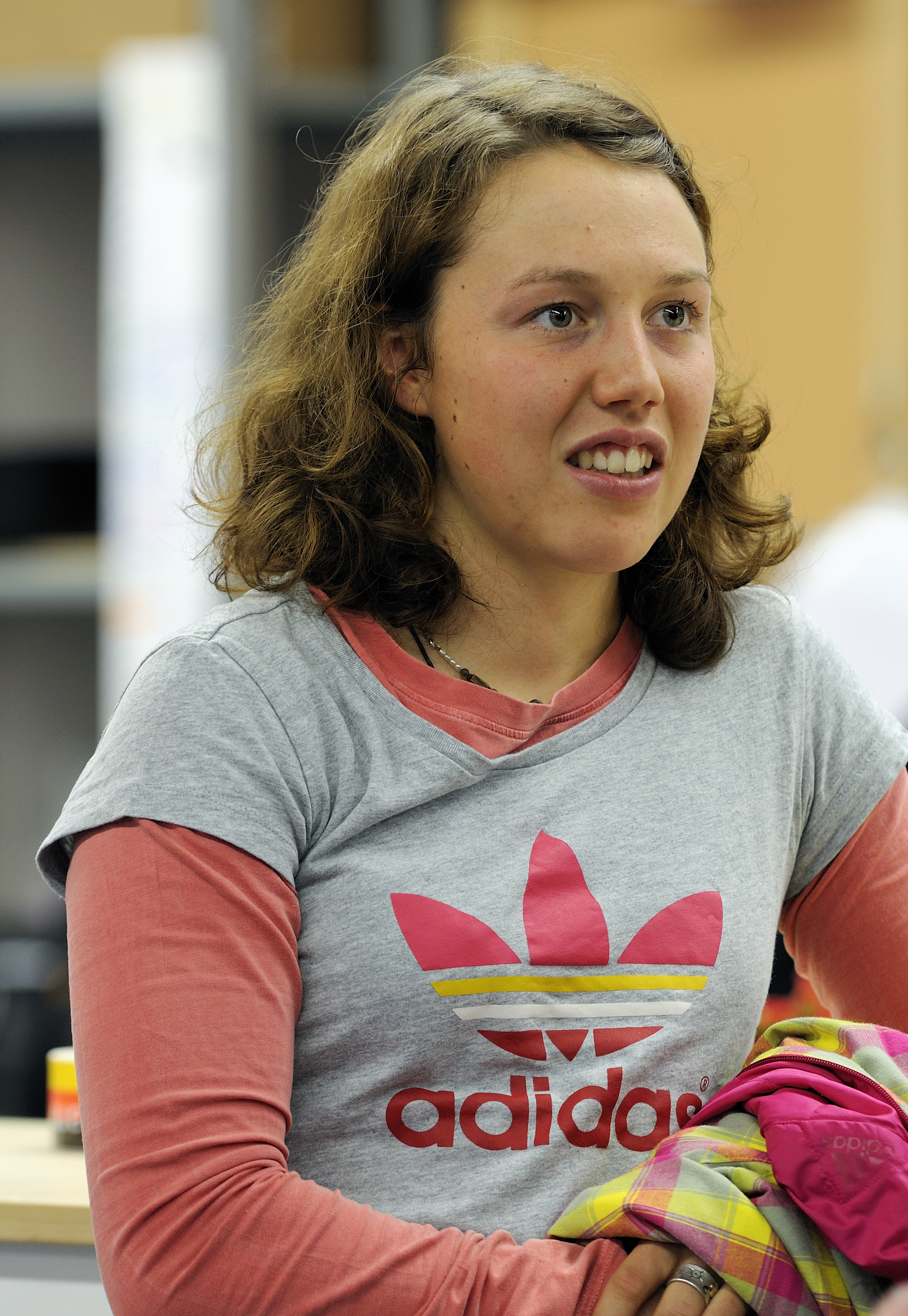 Picture taken in Erding during the investiture of the 2014 German olympic team (project). Laura Dahlmeier.